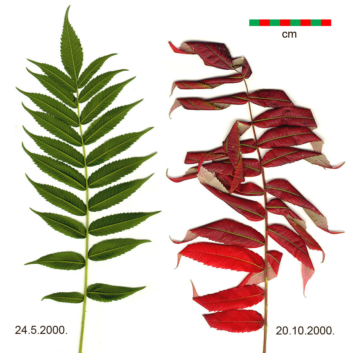 Rhus typhina leaves in May and October